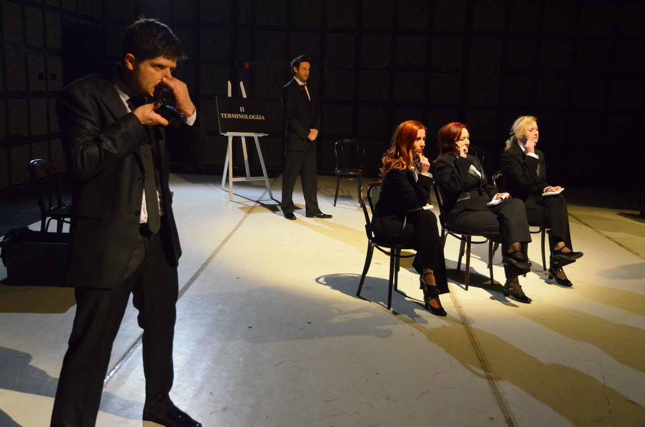 "Very Happy People" written and directed by Predrag Štrbac; Drama of the SNT, Novi Sad, 2011/12; Milovan Filipović, Sonja Damjanović, Lidija Stevanović, Sanja Mikitišin, Nebojša Savić Srpski (latinica): "Presrećni ljudi" napisao i režirao Predrag Štrbac; Drama SNP-a, Novi Sad, 2011/12; Milovan Filipović, Sonja Damjanović, Lidija Stevanović, Sanja Mikitišin, Nebojša Savić Српски (ћирилица): "Пресрећни људи" написао и режирао Предраг Штрбац; Драма СНП-а, Нови Сад, 2011/12; Милован Филиповић, Соња Дамјановић, Лидија Стевановић, Сања Микитишин, Небојша Савић